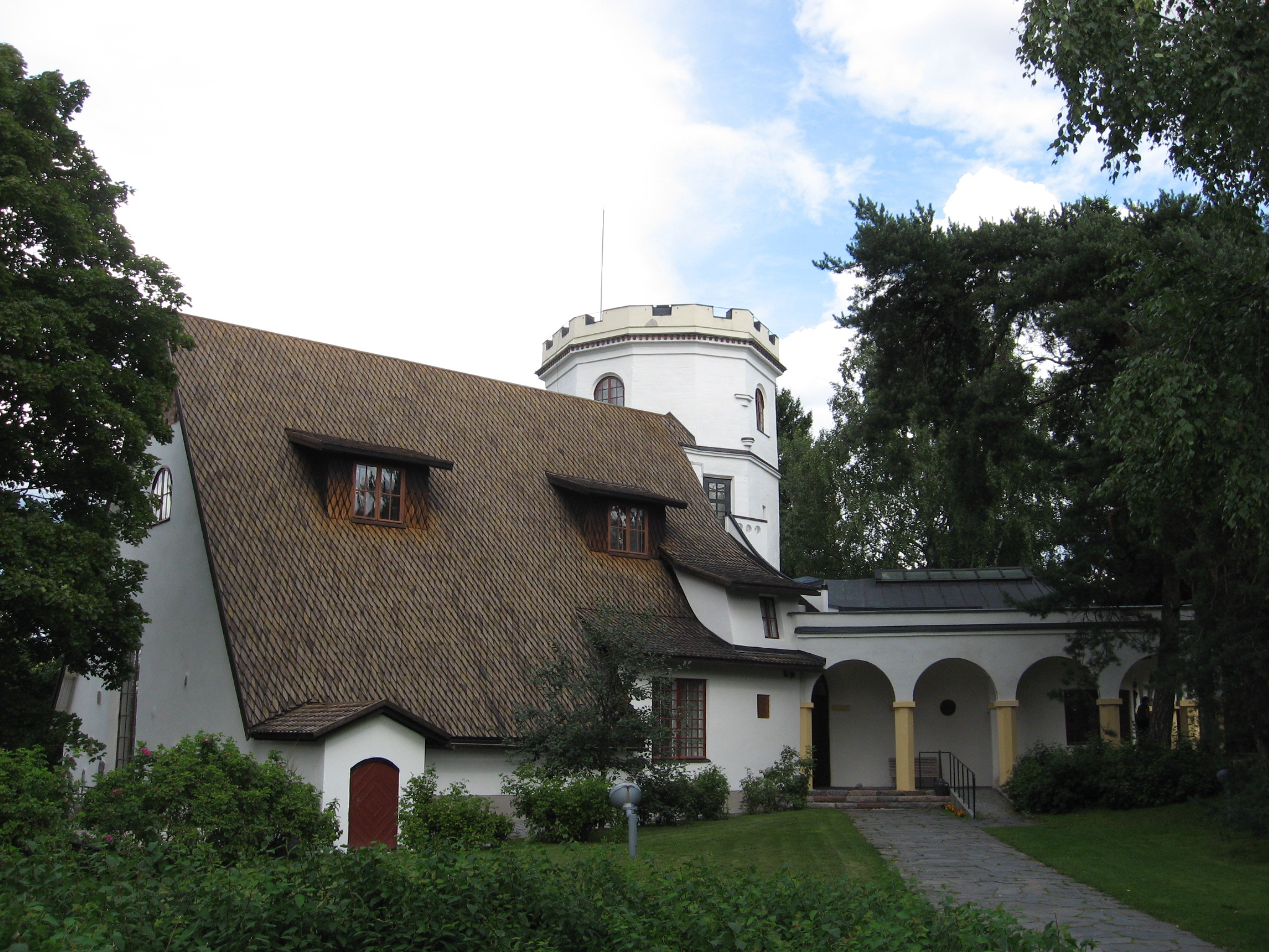 Tarvaspää, museom of Akseli Gallen-Kallela.